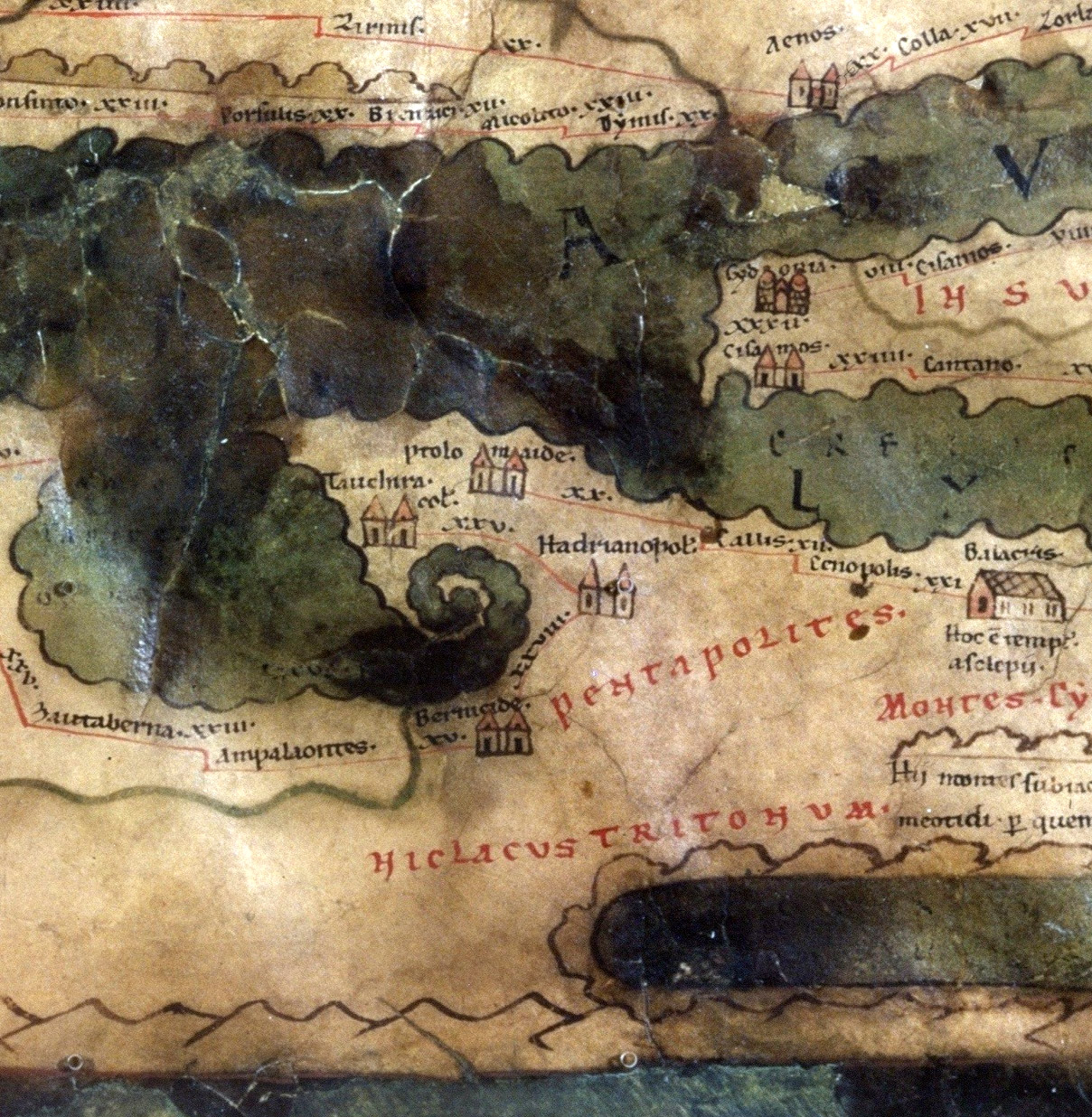 Image created by stitching different sections of the Tabula Peutingeriana from the website of the National Austrian Library. The map shows a section of the Pentapolis and Berenice (one of the five cities).